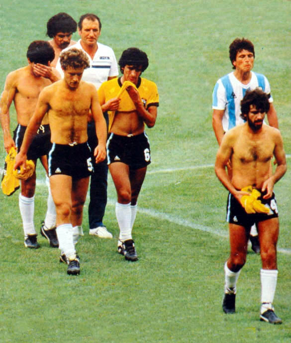 The Argentina national football team after being defeated by Brazil and therefore eliminated from the 1982 World Cup.